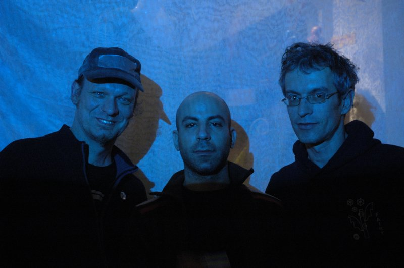 Pomodoro Bolzano. Max D. Well, Jori Tokyo, Chris Wittkowsky.